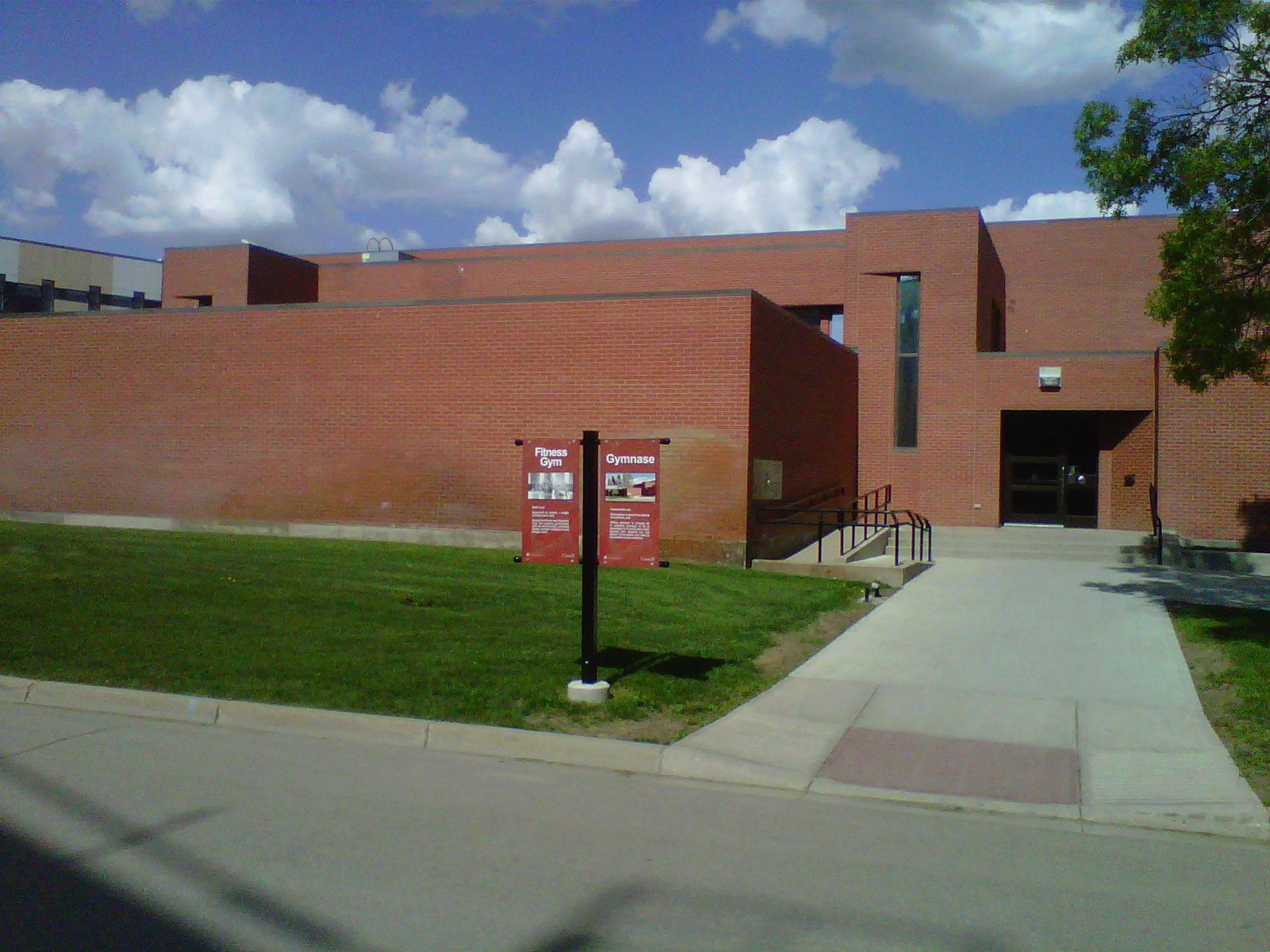 The new gym at Depot Division in Regina